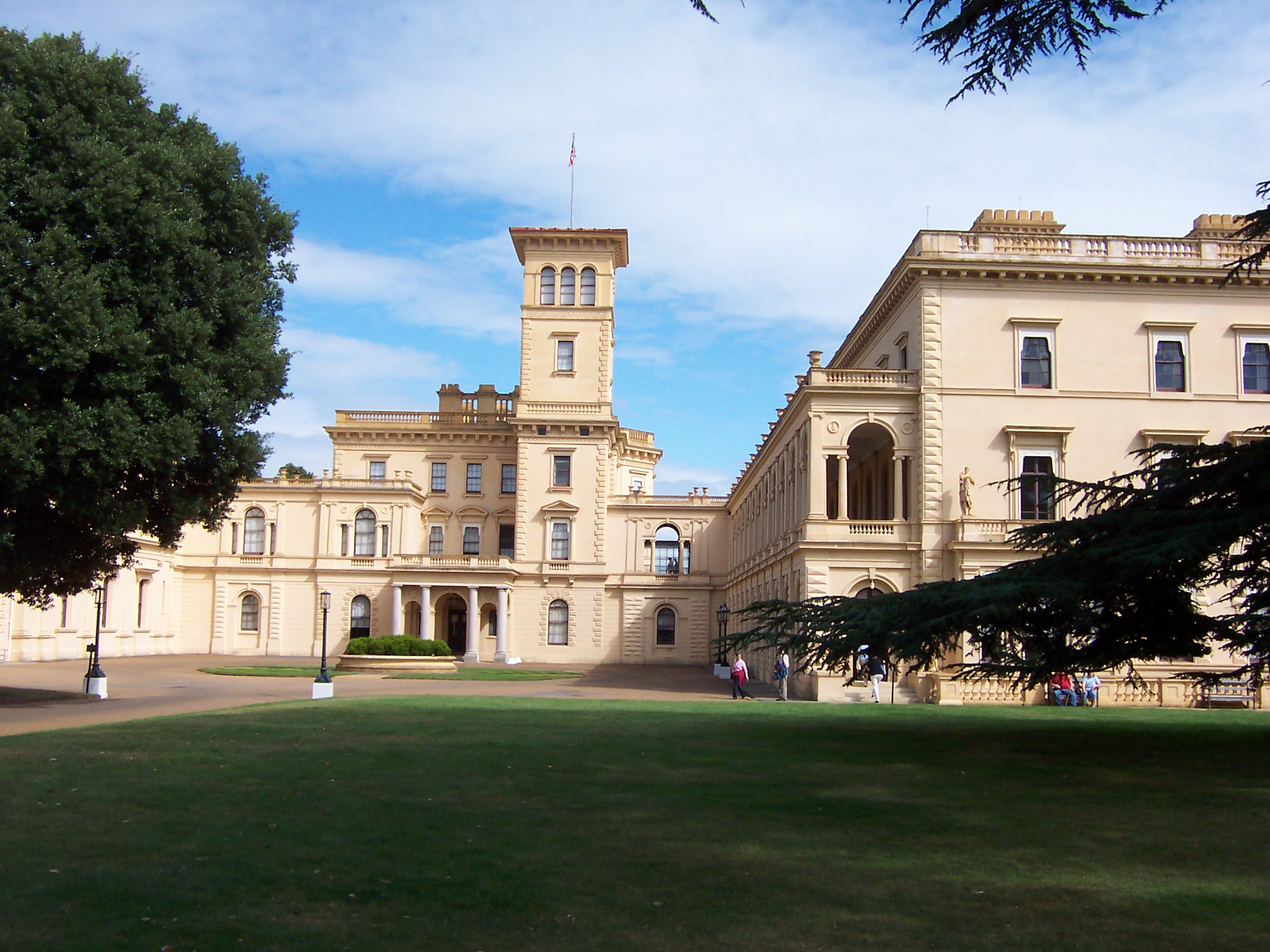 Osborne House